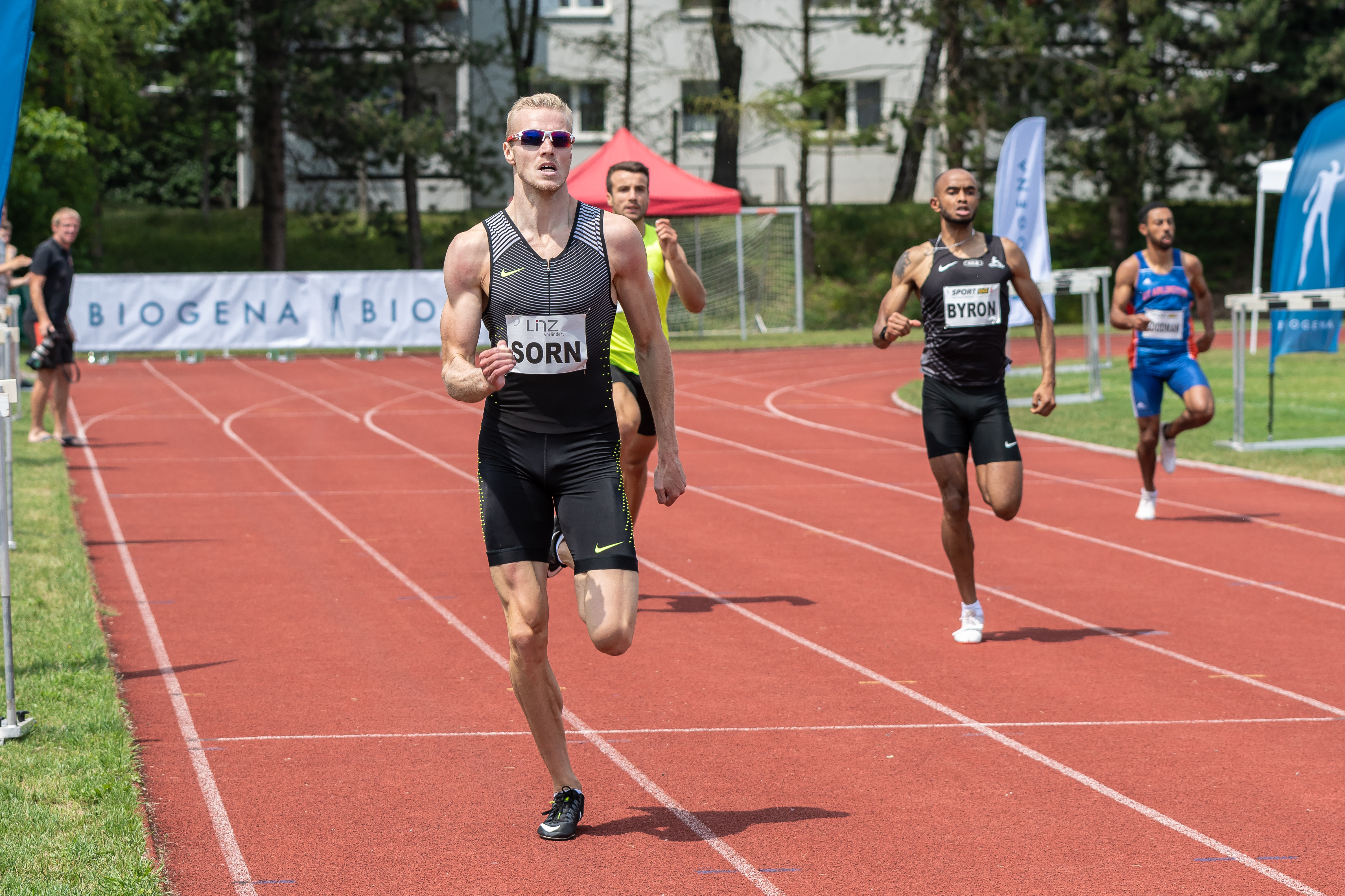 Leichtathletik Gala Linz 2018; men´s 400 m sprint; Šorm Patrik, TJ Dukla Praha